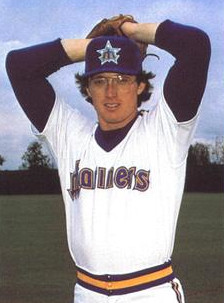 Professional baseball player Mike Parrott